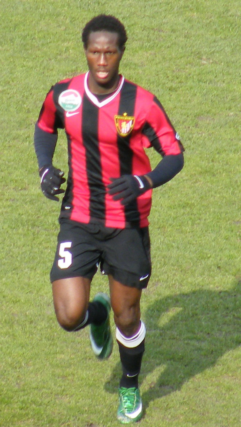 Brou Benjamin Angoua Ivorian association football player.